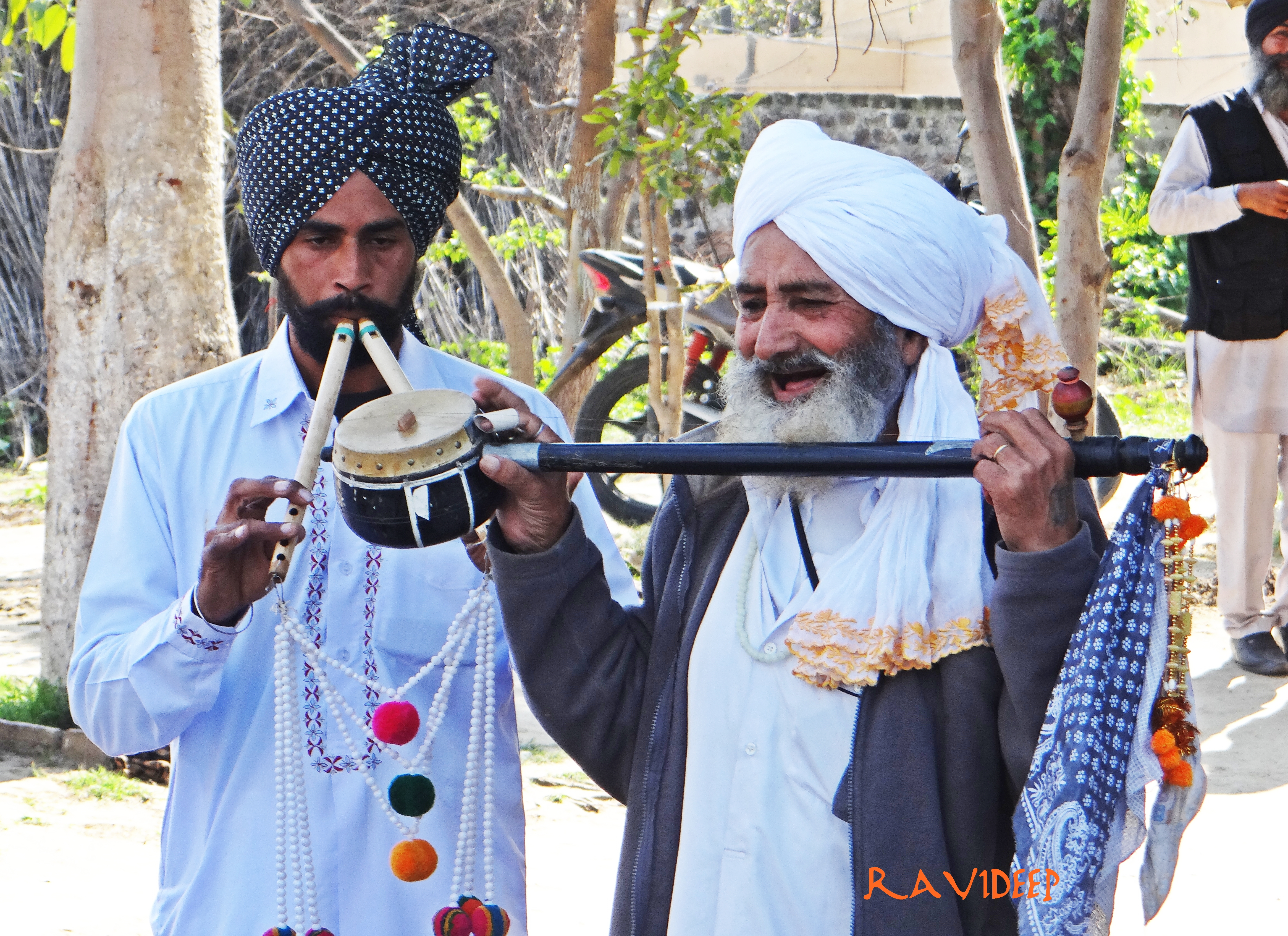 ਇਹ ਪੰਜਾਬ ਦੀ ਲੋਪ ਹੋ ਰਹੀ ਰਵਾਇਤੀ ਗਾਇਕੀ ਹੈ ਜੋ ਕੇ ਹੁਣ ਕੁਝ ਮੇਲਿਆਂ ਤੱਕ ਹੀ ਸੀਮਤ ਰਹਿ ਗਈ ਹੈ ਇਹ ਤੂੰਬੇ ਤੇ ਅਲਗੋਜ਼ੇ ਨਾਲ ਹੀਰ ਵਾਰਸ਼ ਸ਼ਾਹ ਗਾ ਰਹੇ ਨੇ ਮੇਲੇ ਜਰਗ ਦੇ ਉੱਤੇ